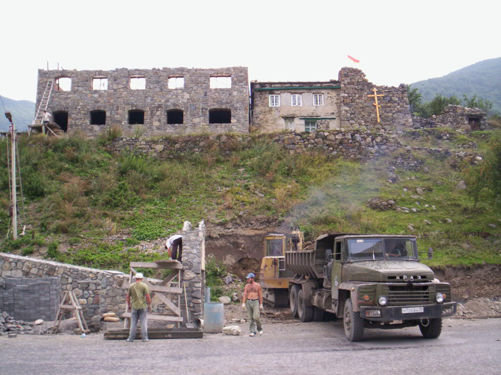 My own photo of the Alanian Men's Monastery in North Ossetia. August 2005. This car is a dump truck KrAZ-6133S6.